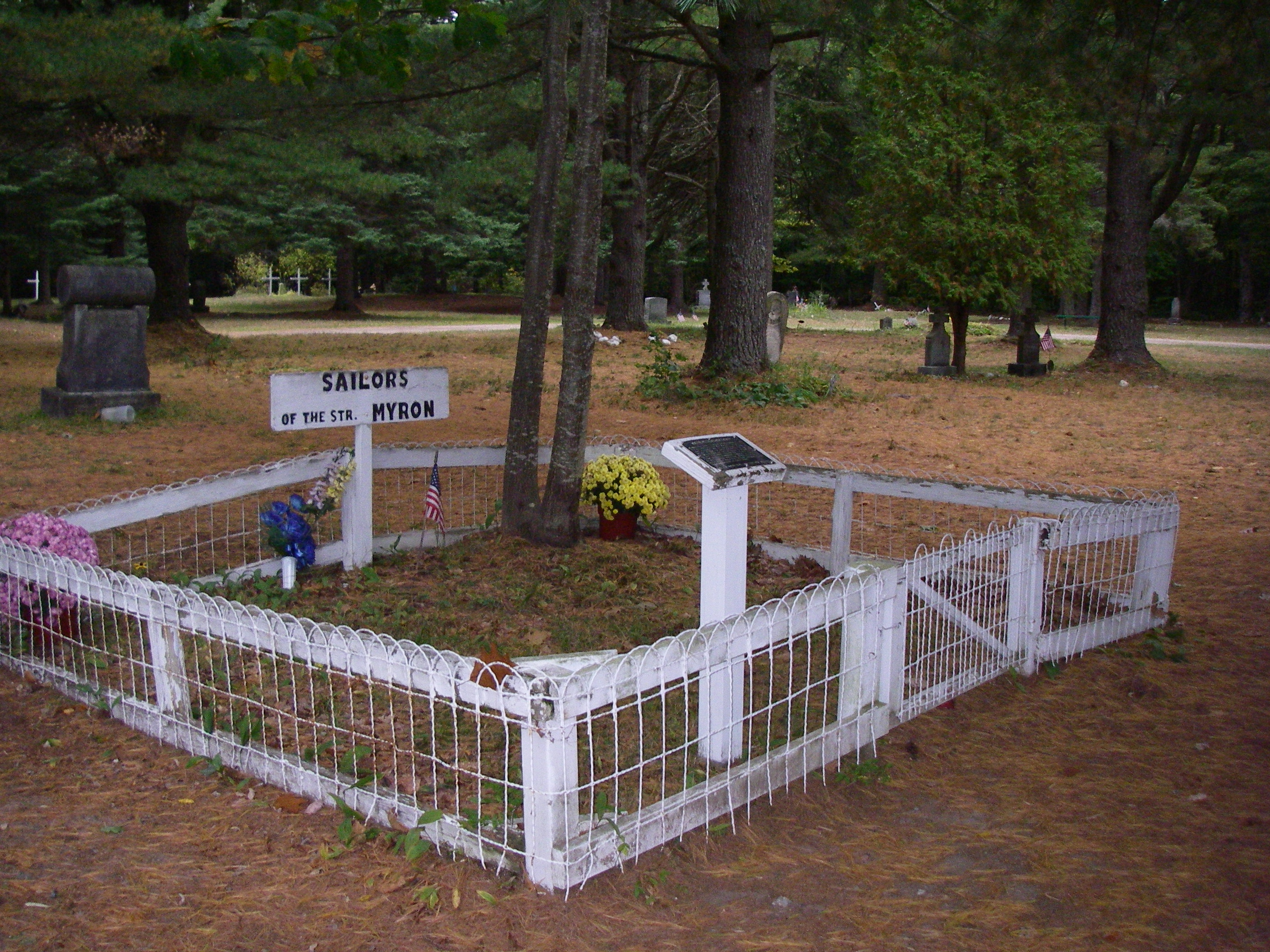 Gravesite of sailors from the S.S. Myron at the Mission Hill Cemetery. The S.S. Myron sank in 1919 in Whitefish Bay with the loss of 16 crewmen.